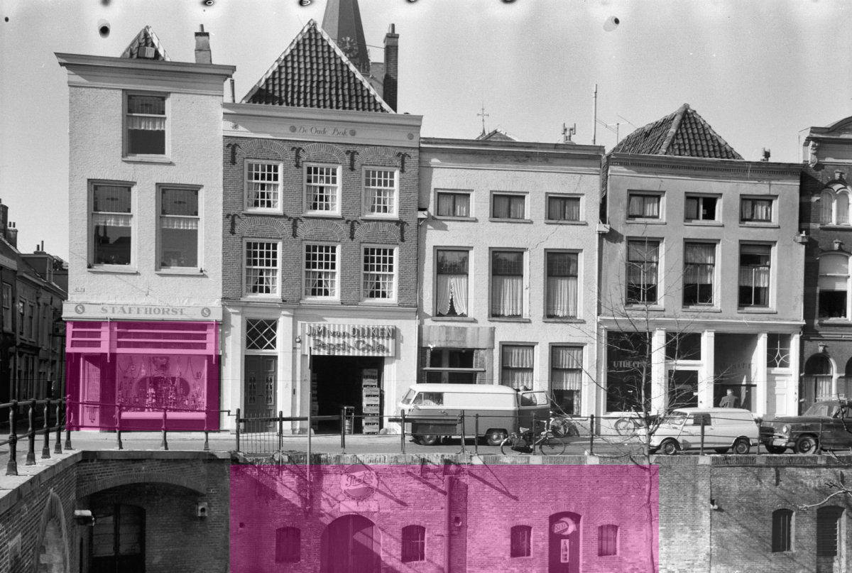 Photo showing Oudegracht 41-47 in Utrecht in 1963, with in pink the locations of gay bar De Wolkenkrabber (Oudegracht 47, 1984-2006) and gay disco De Roze Wolk (Oudegracht 43-45, 1982-2006).